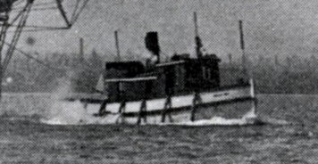 Tugboat and part-time fireboat Nellie Bly, in Toronto, in 1908.